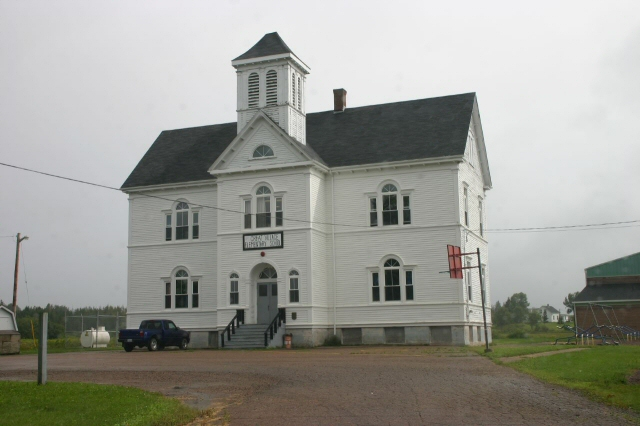 Great Village Elementary School, taken in August 2007 Loimere 15:31, 14 September 2007 (UTC)